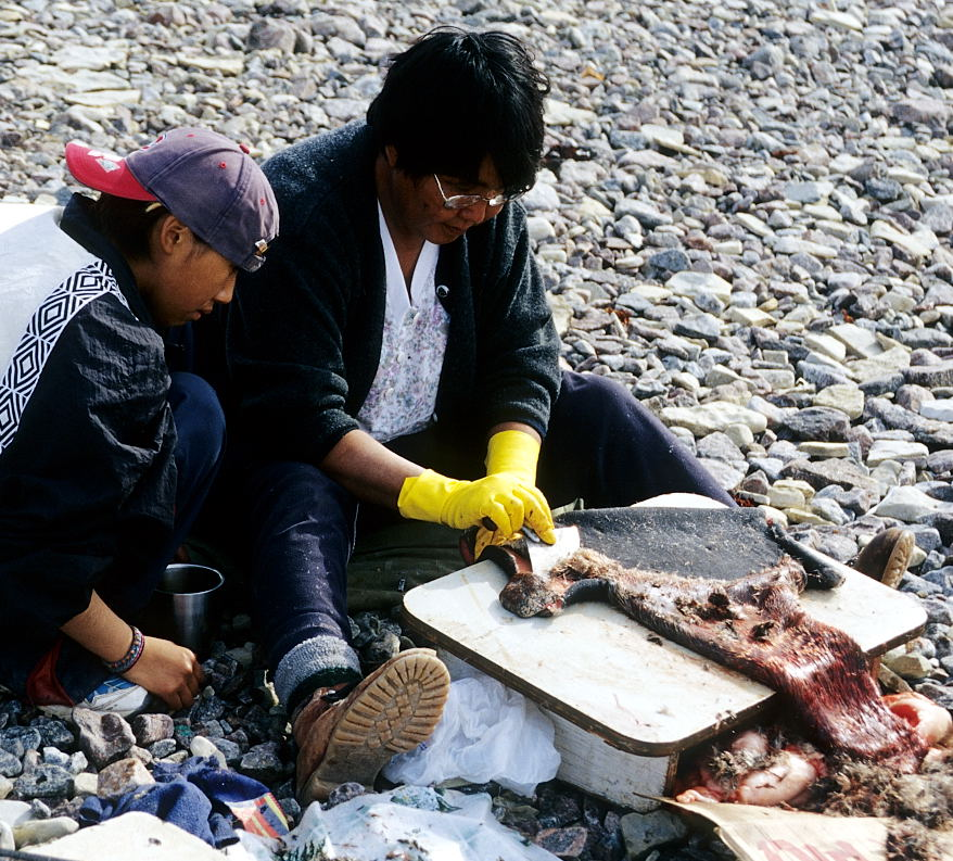 Inuit preparing fur of bearded seal (Erignathus barbatus) for clothing; Baffin Island near Foxe Basin (Nunavut, Canada)